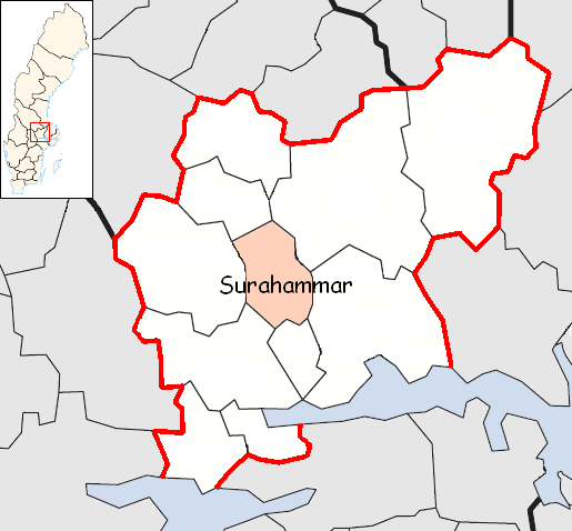 Surahammar Municipality in Västmanland County Designed by me. Mere outlines are a PD source from